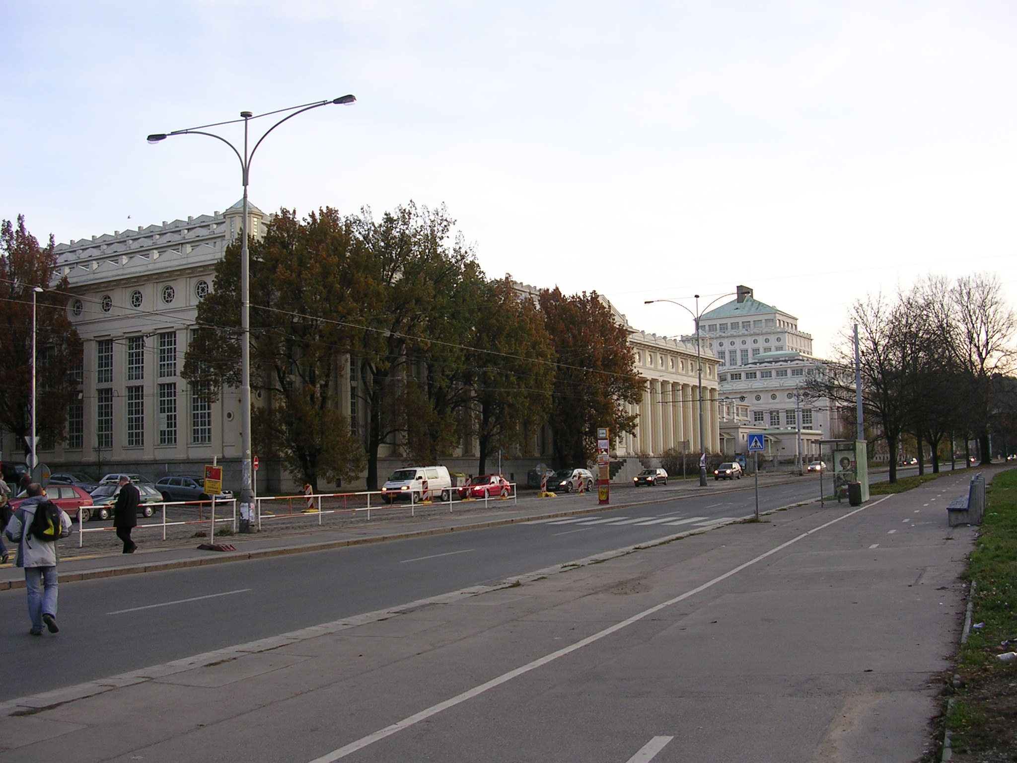 Podolí, Prague.